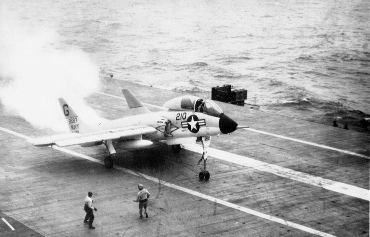 A U.S. Navy Vought F7U-3 Cutlass (BuNo 129597) from Attack Squadron VA-212 "Rampant Raiders" aboard aircraft carrier USS Bon Homme Richard (CVA-31). VA-212 was assigned to Carrier Air Group 21 (CVG-21) aboard the Bon Homme Richard for a deployment to the Western Pacific from 16 August 1956 to 28 February 1957.